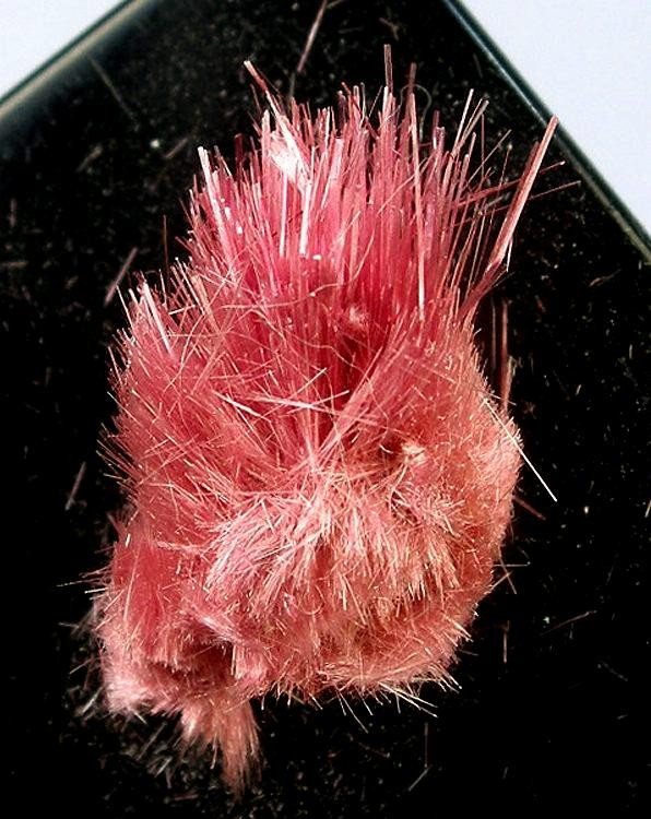 Erythrite Locality: Mt Cobalt Mine, Selwyn District, Mt Isa - Cloncurry area, Queensland, Australia (Locality at ) Size: 1.6 x 0.9 x 0.6 cm. A striking thumbnail tuft of gemmy/metallic, magenta erythrite hairs on this exceptional specimen from the Mt. Cobalt Mine of Australia. Unusually rich and seldom available in this quality. Older material.